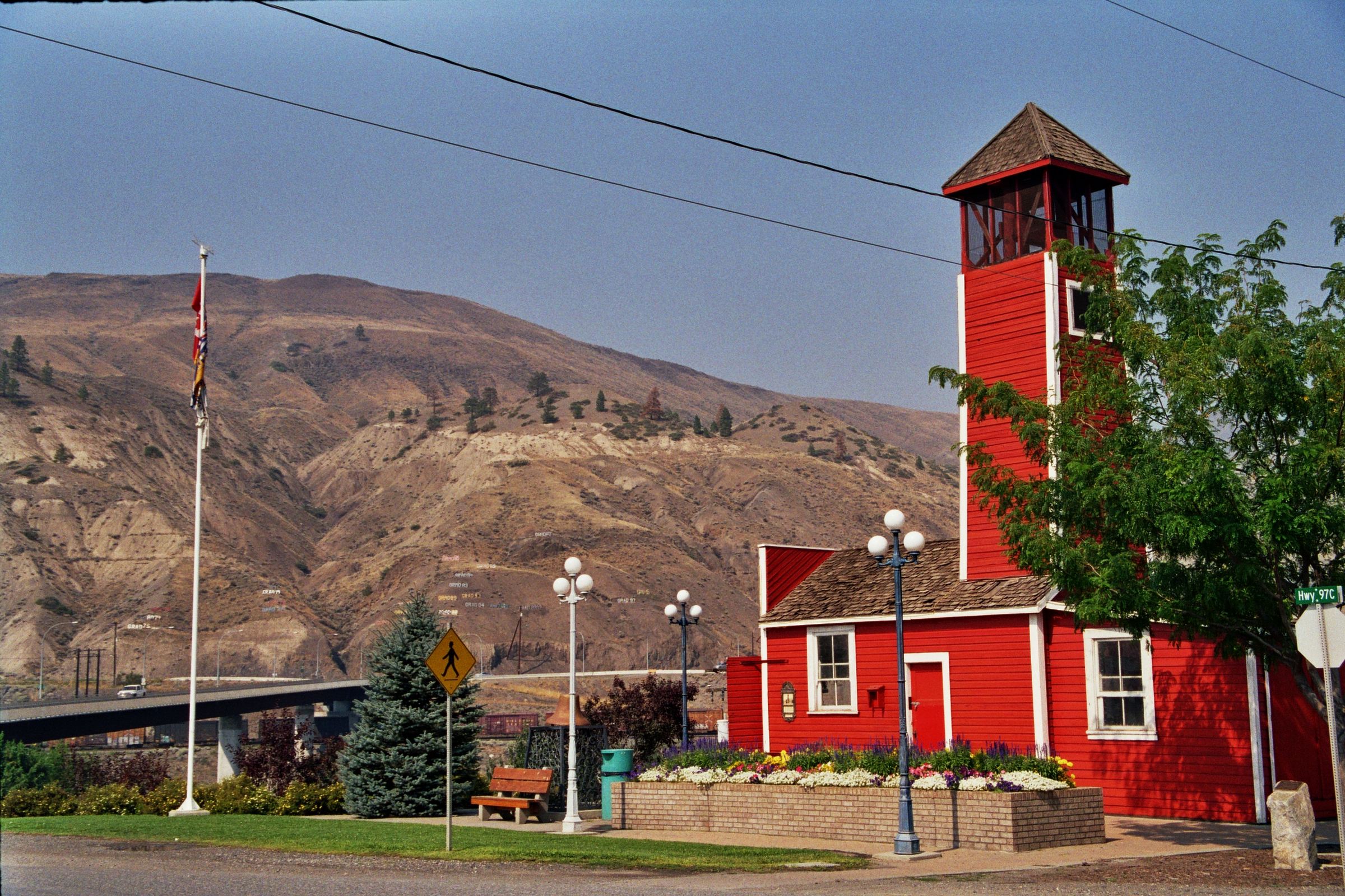 Historic Firehall in Ashcroft, British Columbia, Canada. Rebuilt in 1919